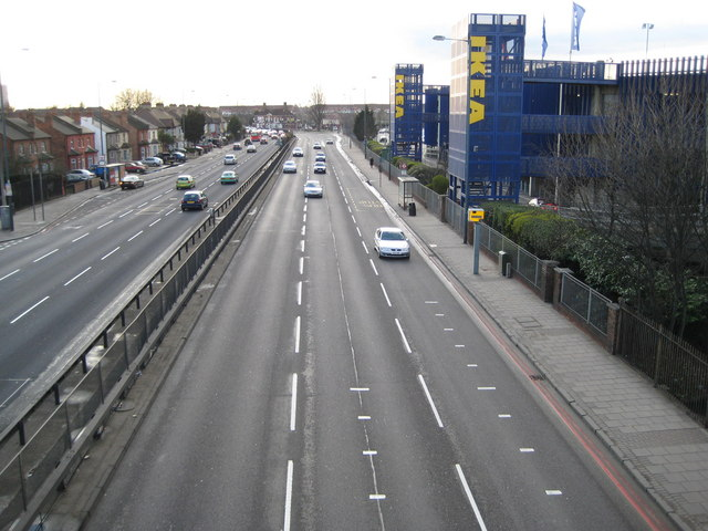 Wembley: A406 North Circular Road The North Circular Road began life in the 1920s as development spread out through north-west London and it has always been the A406. However in the 1960s the Greater London Council proposed plans to construct a series of high-speed circular and radial motorways throughout London to ease traffic congestion. Under these plans the North Circular Road was designated to become the northern section of a circular route known as Ringway 2, being the second inner of the four proposed Ringways. It was planned that it would eventually be upgraded to a motorway, provisionally designated as the M15. These plans were cancelled in 1973. This view was taken from the footbridge leading to IKEA and Tesco, with the IKEA store on the right.